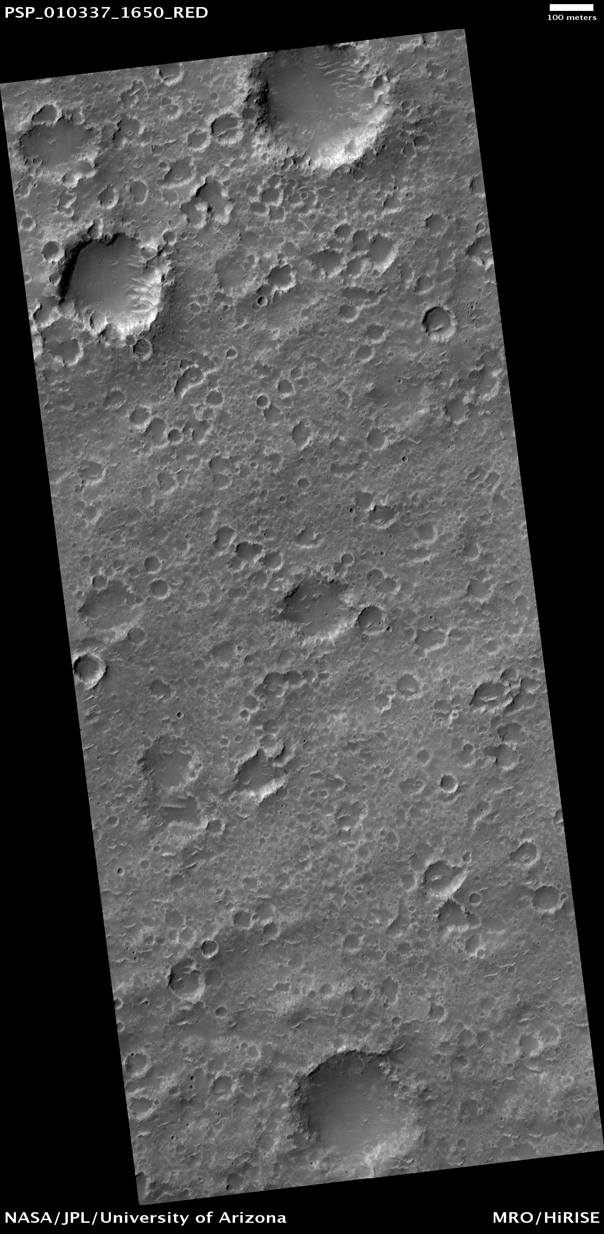 HiRISE image of northwester Hesperia Planum